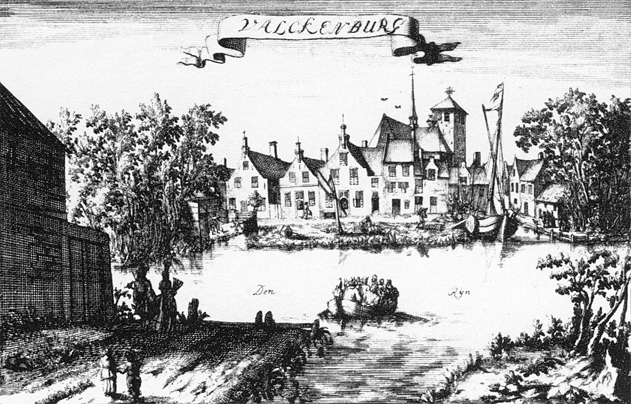 Drawing of Valkenburg (ZH) from about 1675